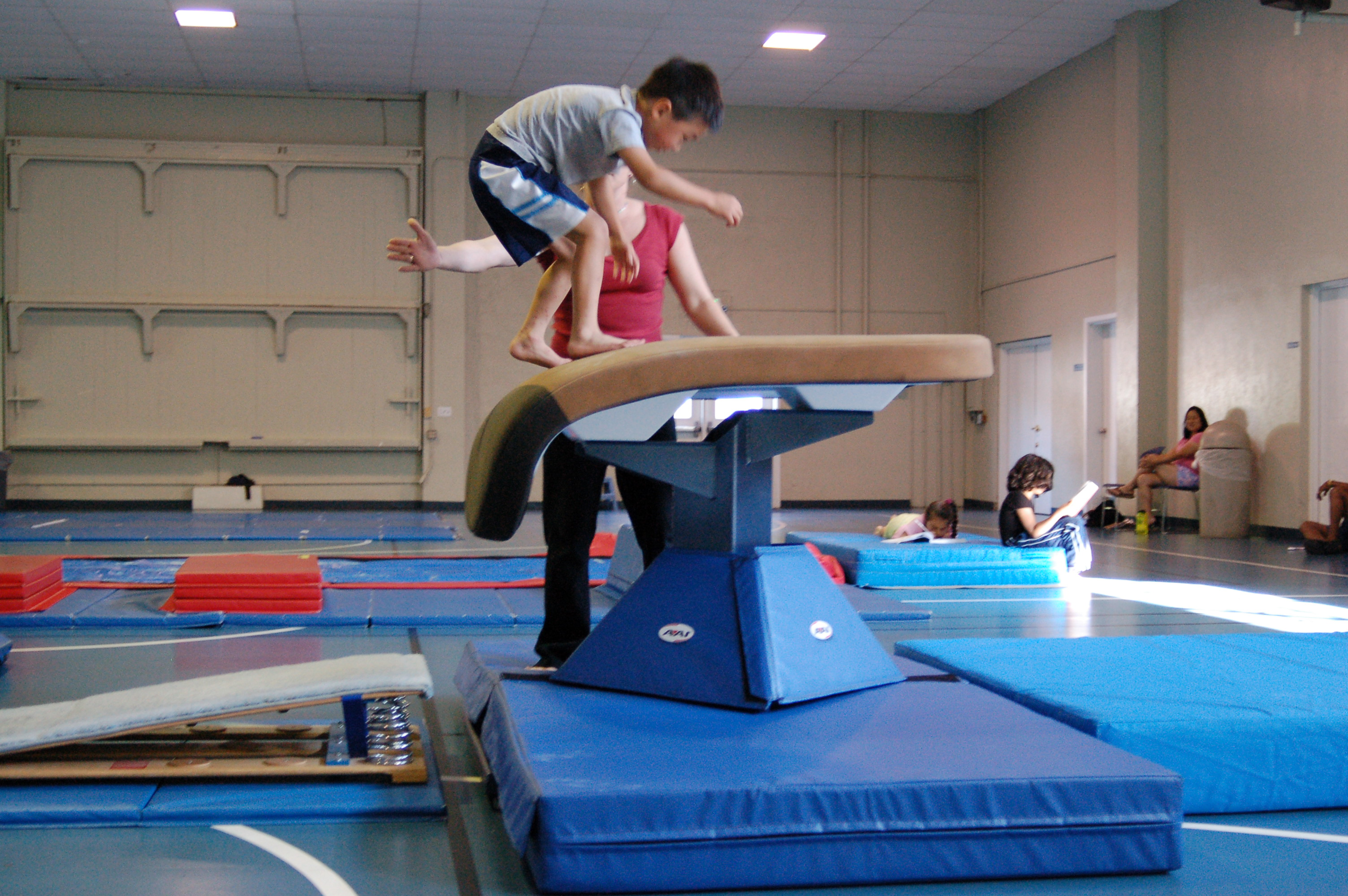 Young boy on vault